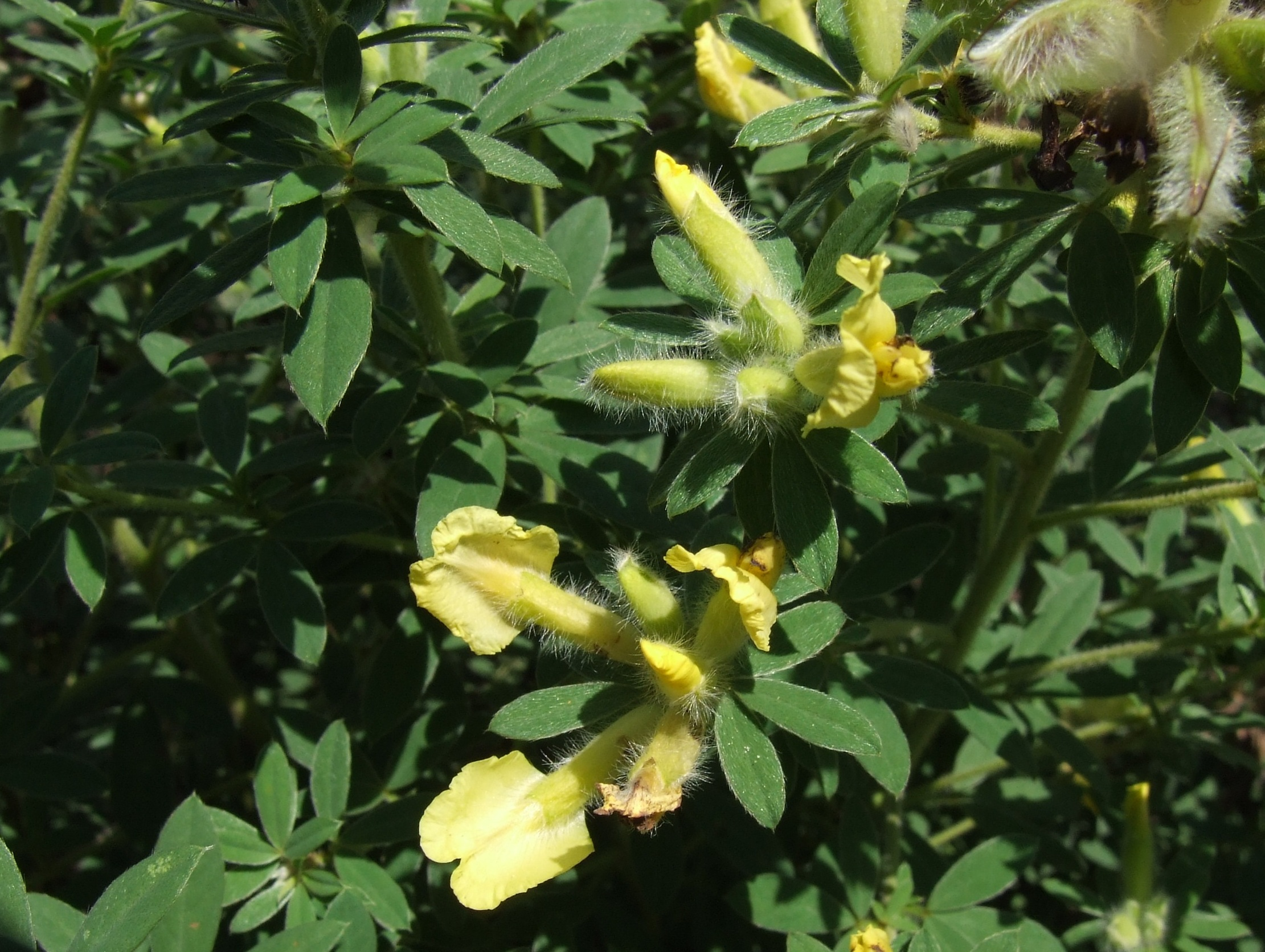 Chamaecytisus hirsutus Link. Identified by user Le.Loup.Gris.